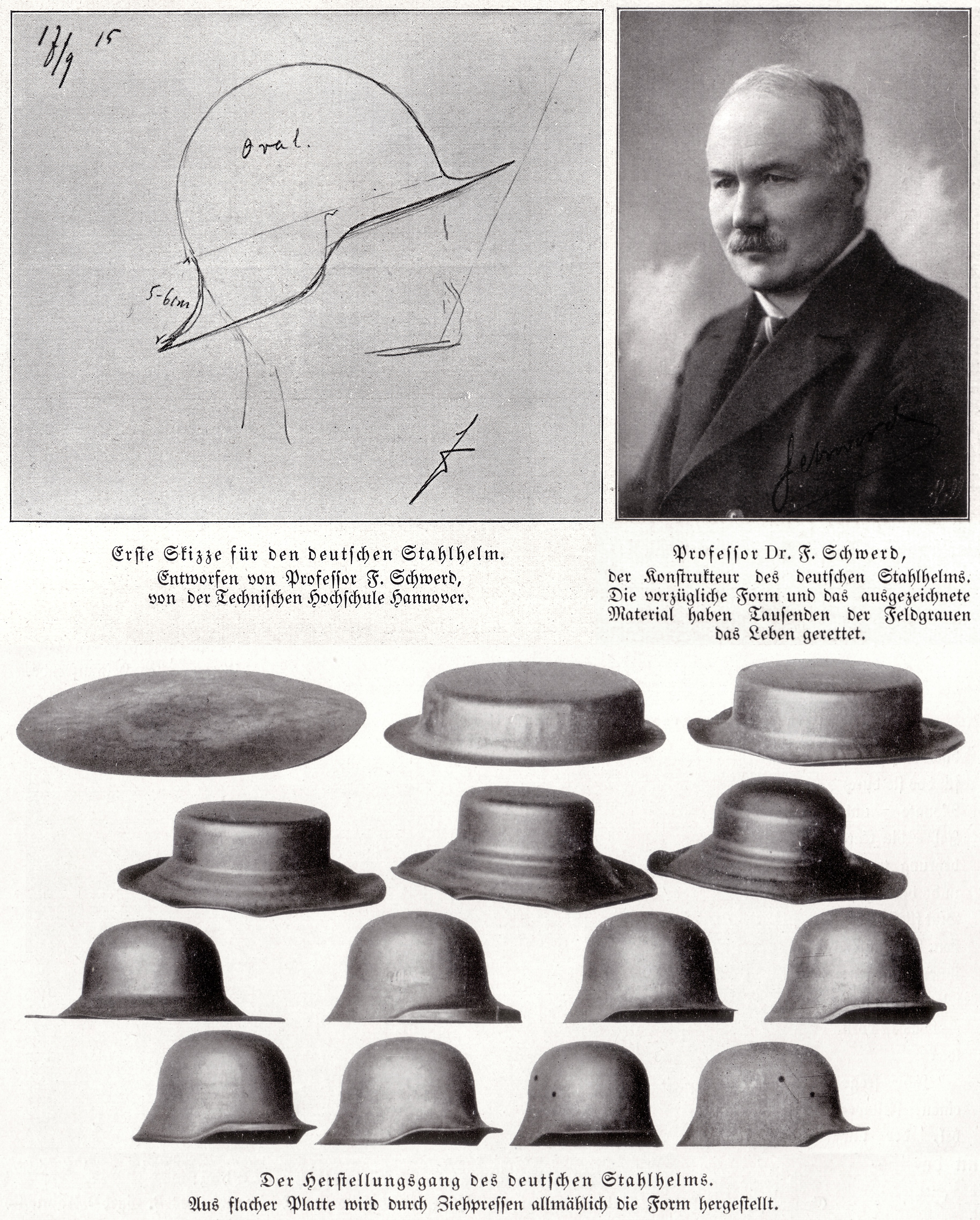 manufacturing process first german steelhelmet Model 1916, first sketch (around 1915) and portrait from Prof. Dr. Friedrich Schwerd.